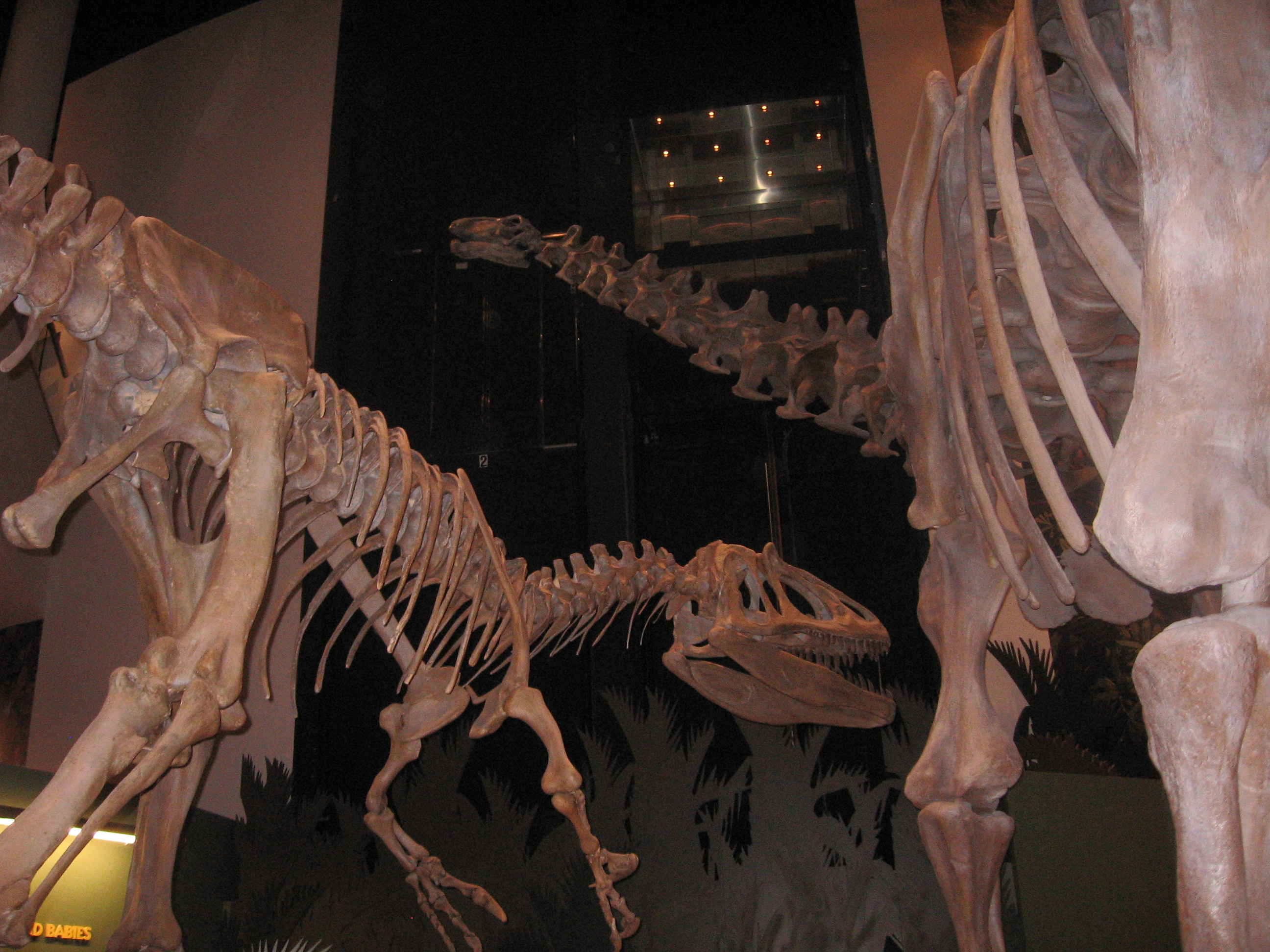 A Saurophaganax maximus and Apatosaurus sp. skeleton displayed in the Sam Noble Oklahoma Museum of Natural History.